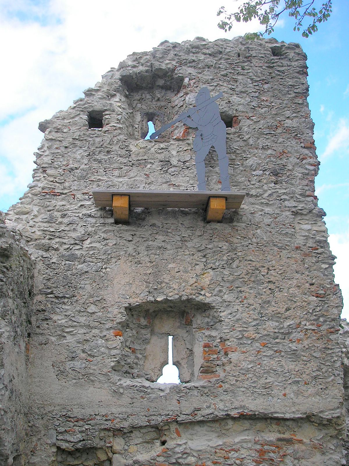 Hohenfreyberg castle (Landkreis Ostallgäu, Bavaria, Germany). Didactic installation of a medieval arquebusier